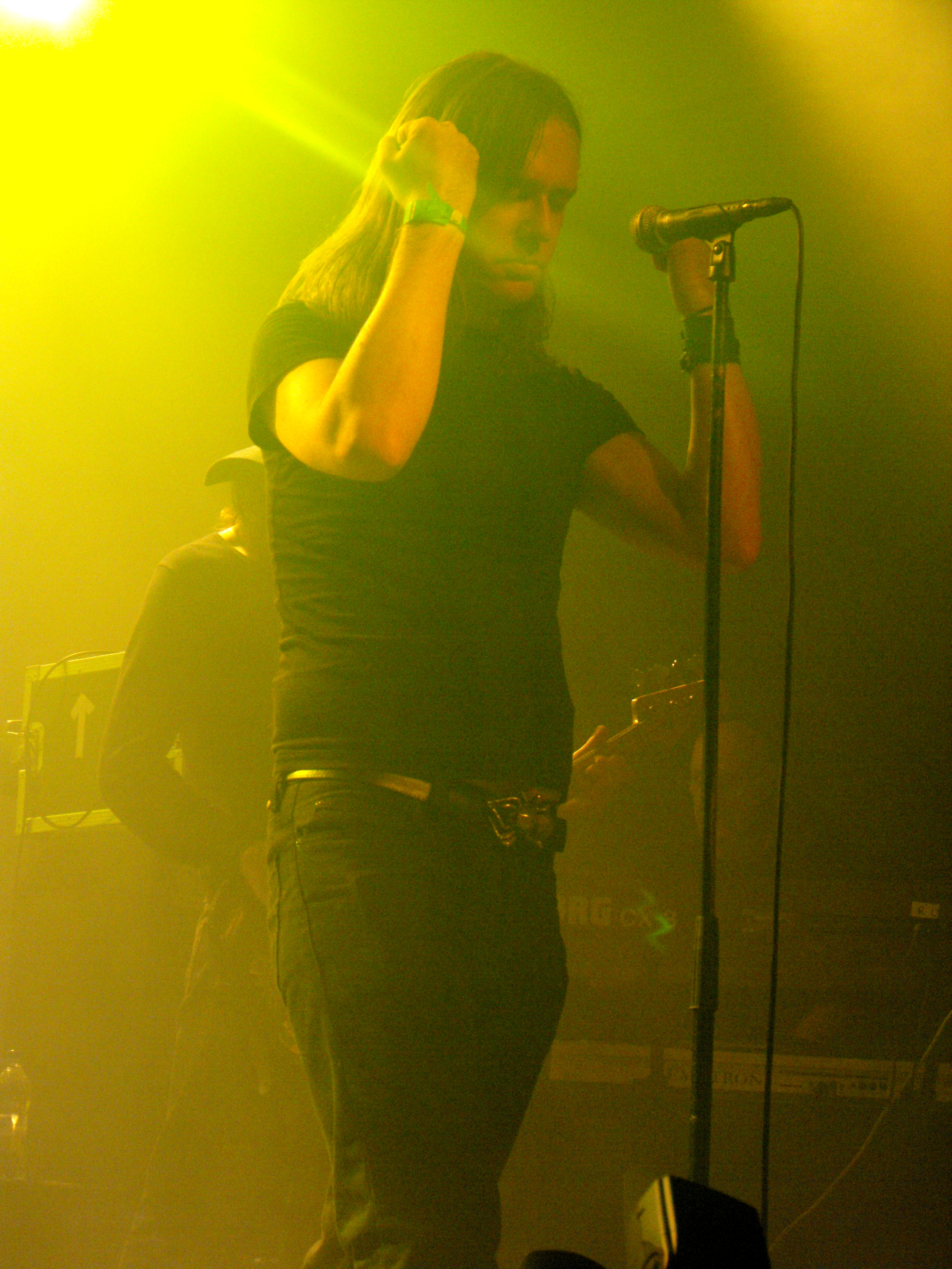 Lee Dorian performing with Cathedral during Hole in the Sky festival in Bergen, Norway, August 2010